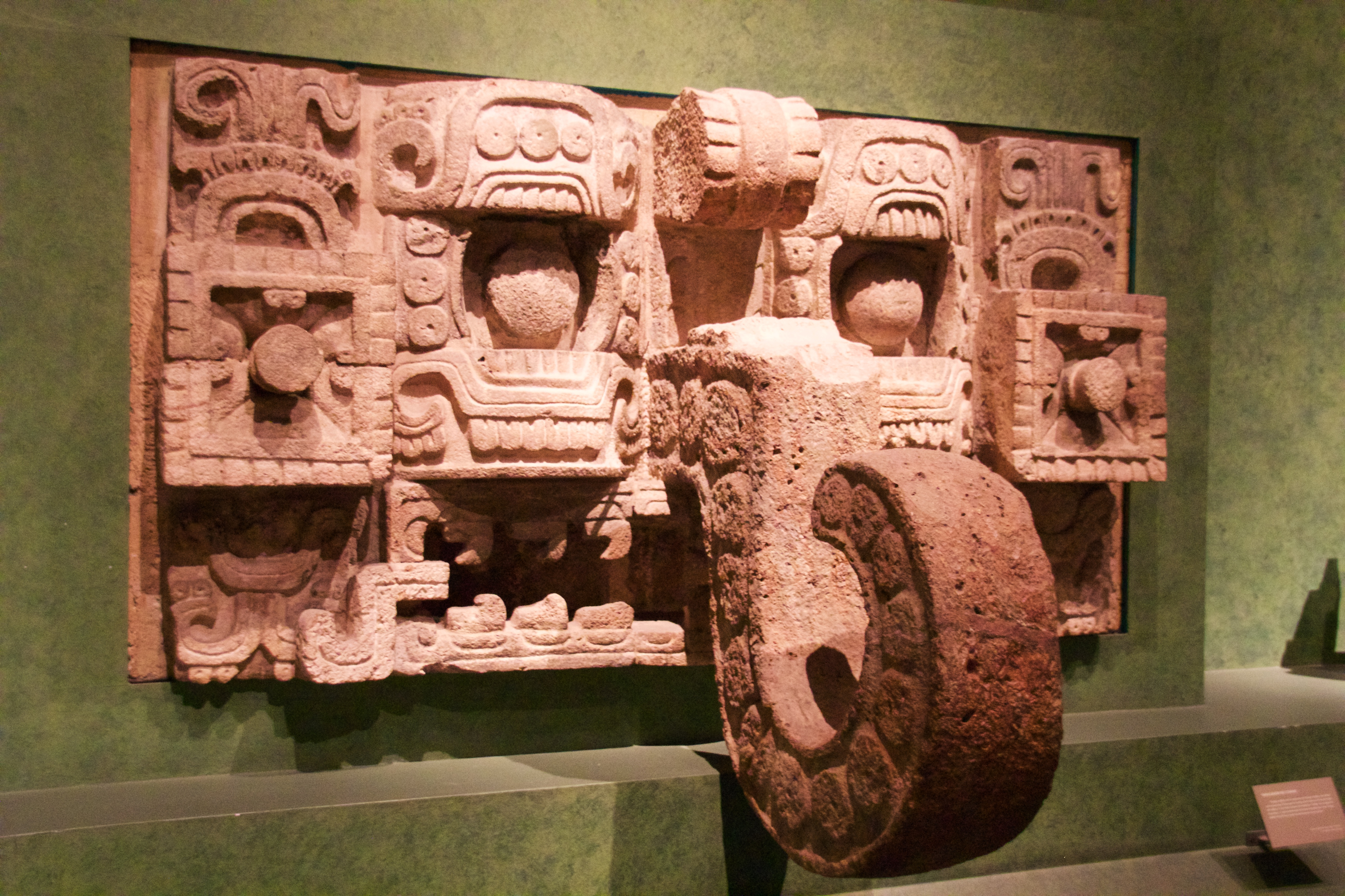 Wiki takes Antropología, at the Museo Nacional de Antropología, Mexico City, Mexico.